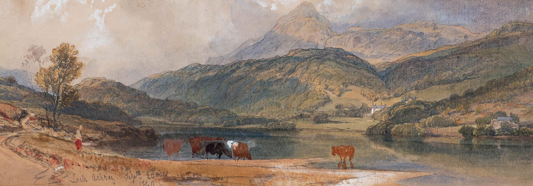 Offered for sale by Abbott and Holder in December 2019, when it was described as "LEITCH William Leighton R.I. (1804-1883) ‘Loch Achray’, Perthshire. Pencil, watercolour and gouache. Inscribed and dated, September 20th 1860. 5x13.75 inches."